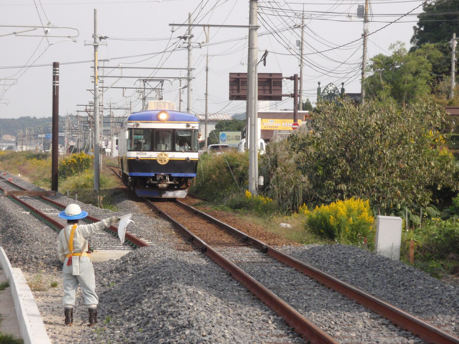 EMU Type 5000 by Ichibata Electric Railway on Kitamatsue Line.